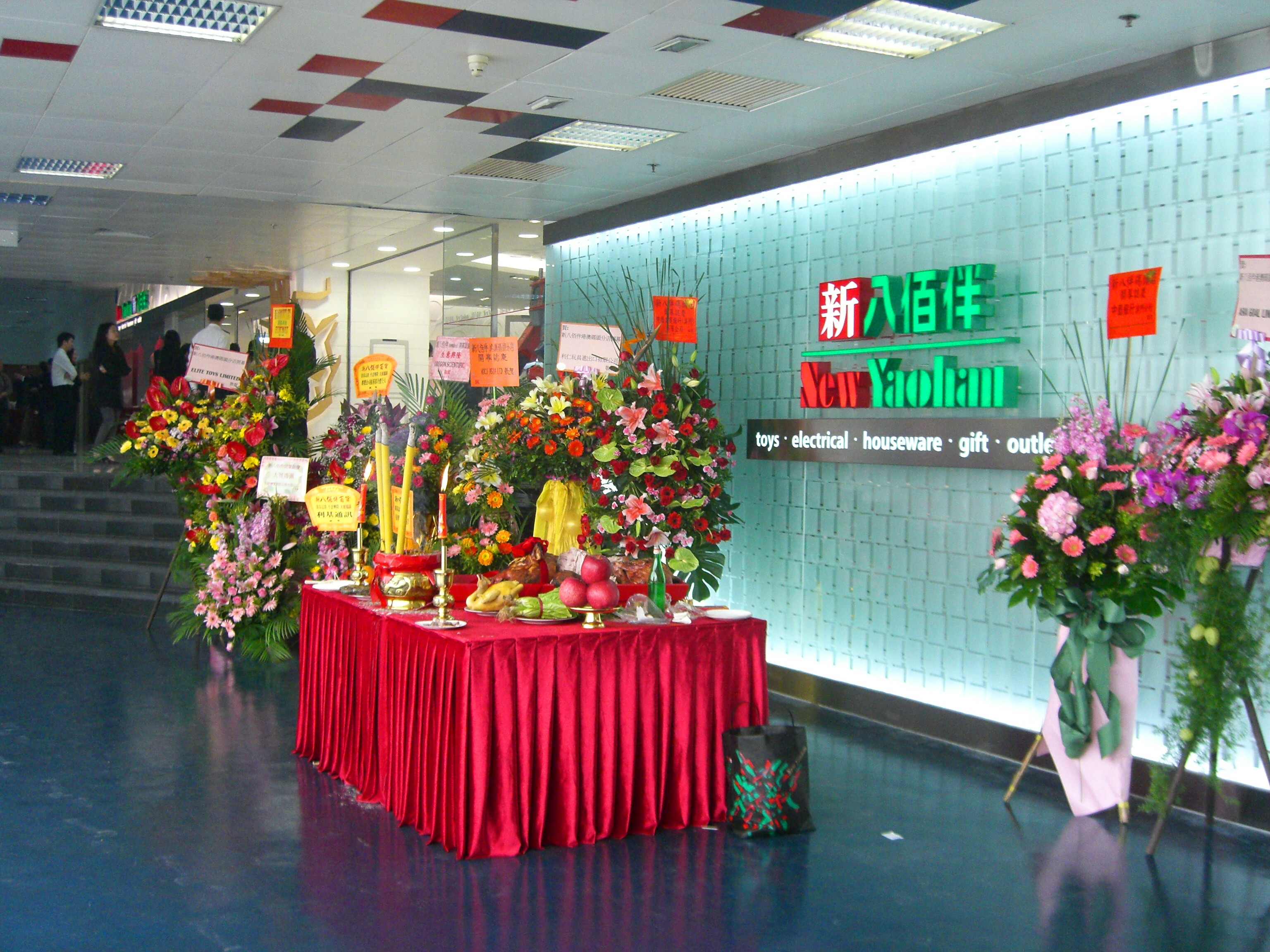 New Yaohan Outlet